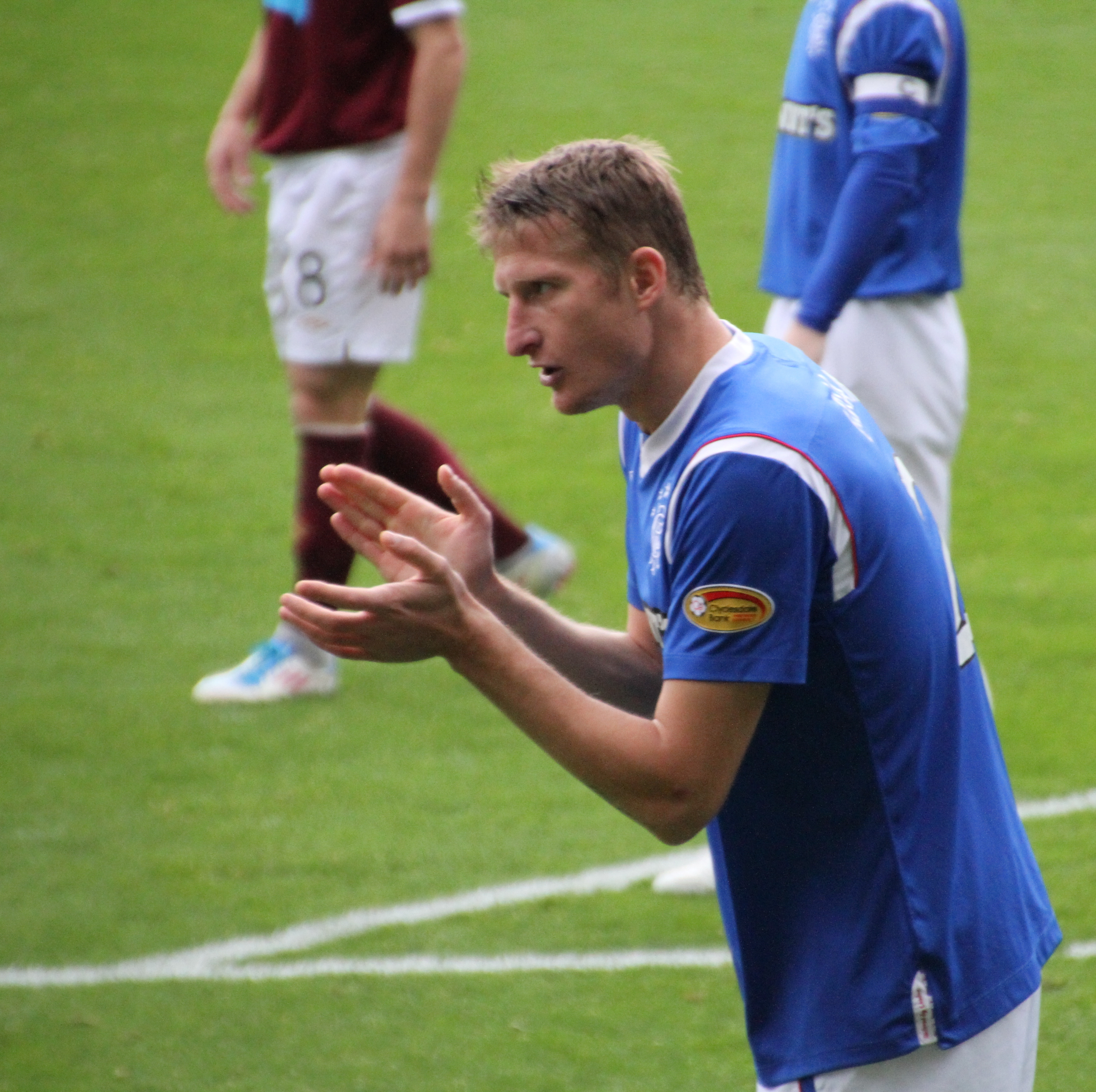 Dorin Goian.